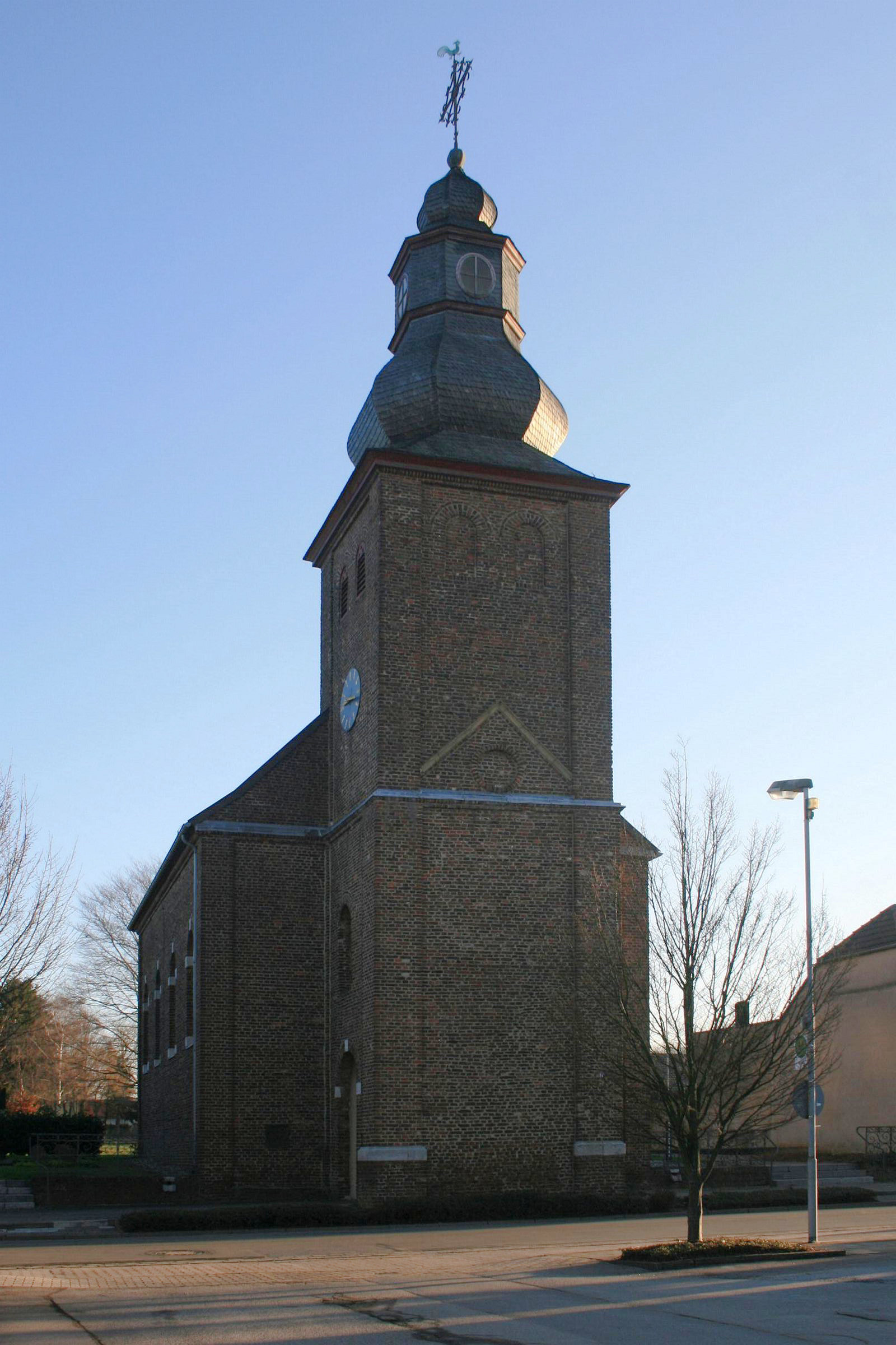 Cultural heritage monument No. 56 in Jülich